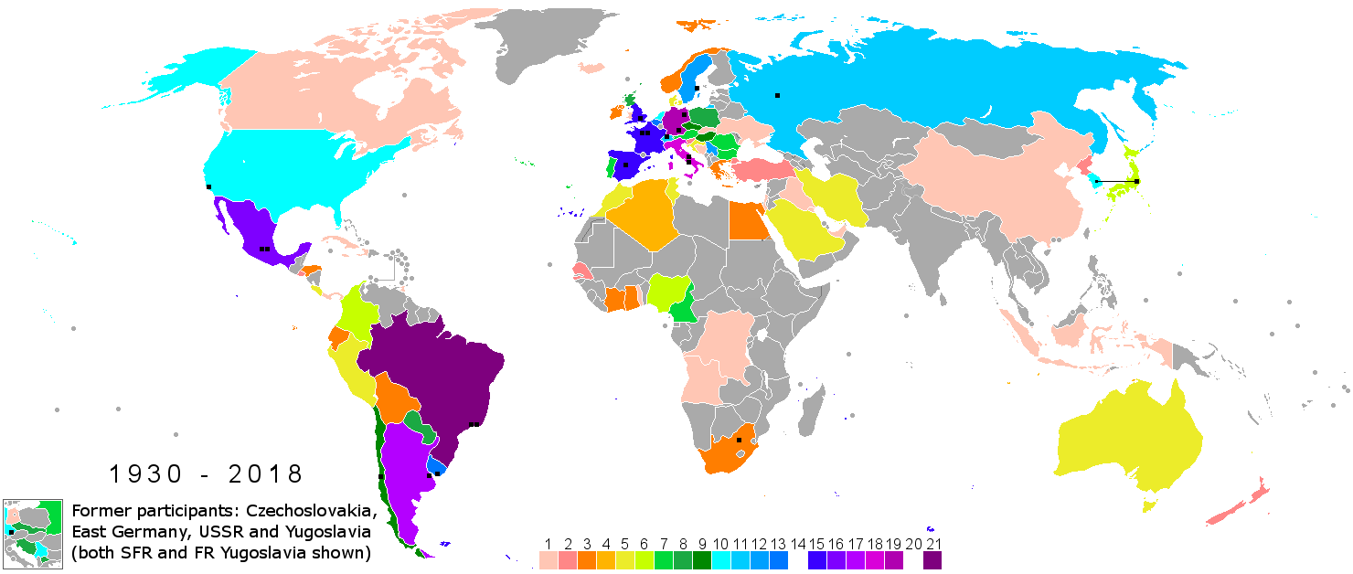 Map_World_Cup_appearances (1930-2018)